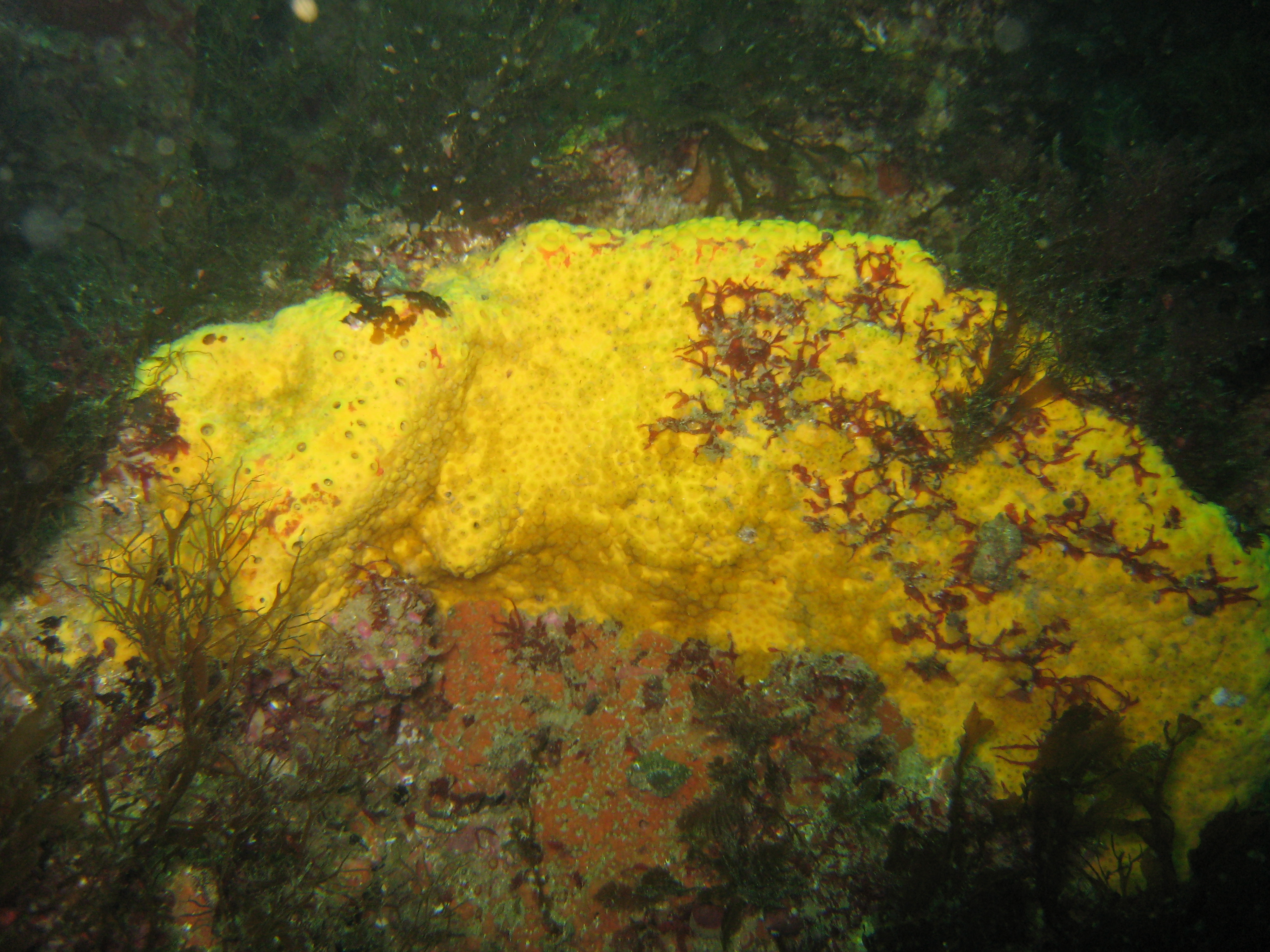 Cliona celata in Saint-Quay-Portrieux